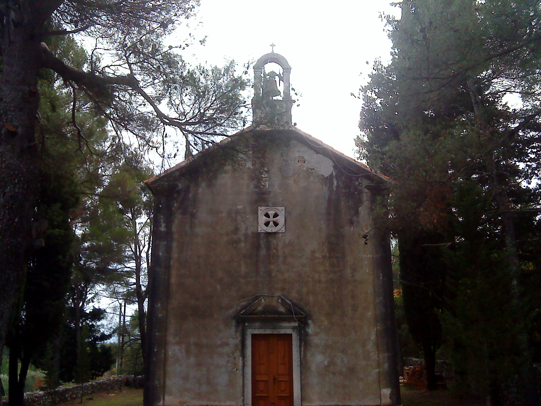 Our Lady of health church in Osobjava